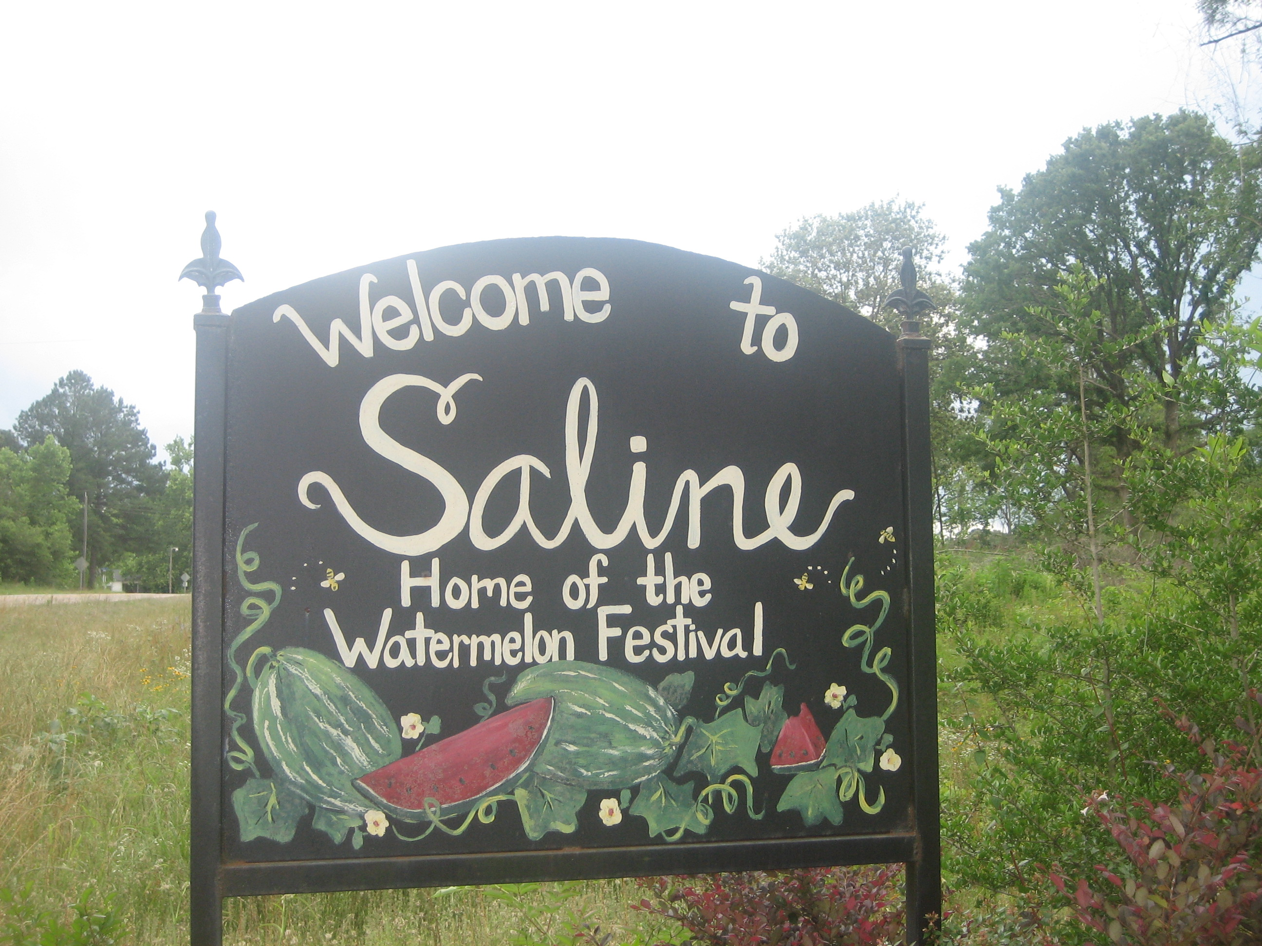 I took photo on May 24, 2009.Billy Hathorn (talk) 23:39, 29 May 2009 (UTC)